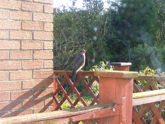 Sparrowhawk A regular visitor along with his mate. Many residents put out food for small birds and the sparrowhawks are only too pleased to take advantage.